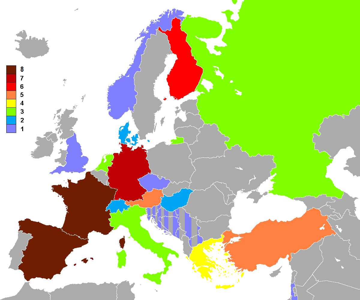 Miss Europe history